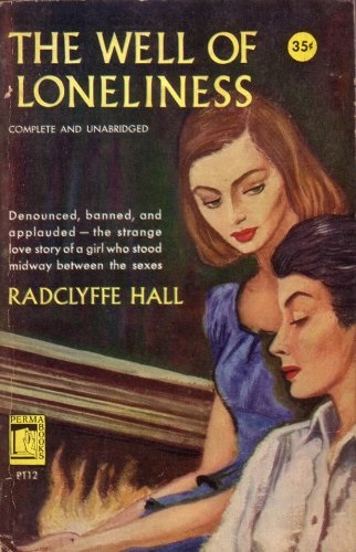 Cover of "The Well of Loneliness" by Radclyffe Hall. Permabooks P112, 1951.